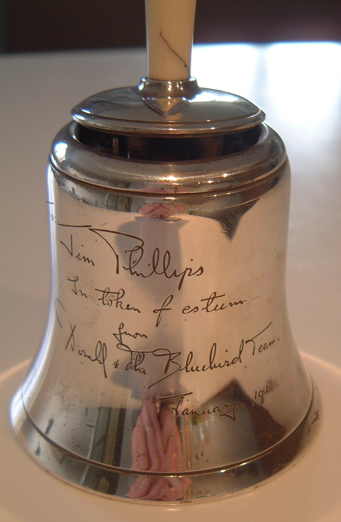 Inscribed cigarette lighter presented to James Milner Phillips by Donald Campbell